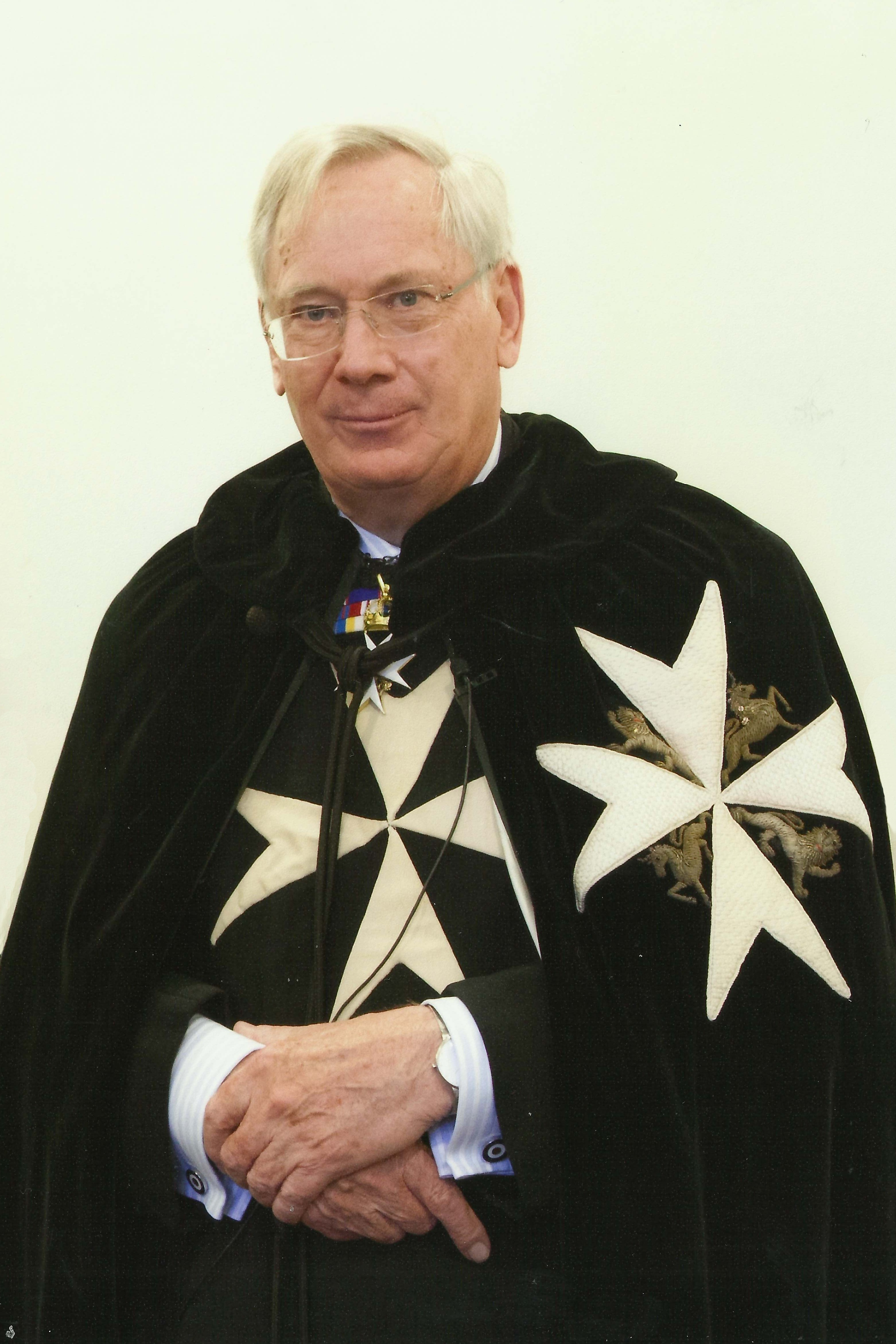 HRH Prince Richard, Duke of Gloucester, Grand Prior of the Most Venerable Order of the Hospital of Saint John of Jerusalem immediately before the Investiture Service of the Priory in the United States at Saint Michael and All Angels Episcopal Church in Dallas, Texas, United States of America. I took this photograph prior to the service.